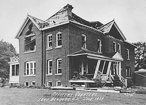 Photo of Officer's Quarters, Lake Denmark Powder Depot, July 1926, after lightning struck one of the explosives storage structures during a thunderstorm.